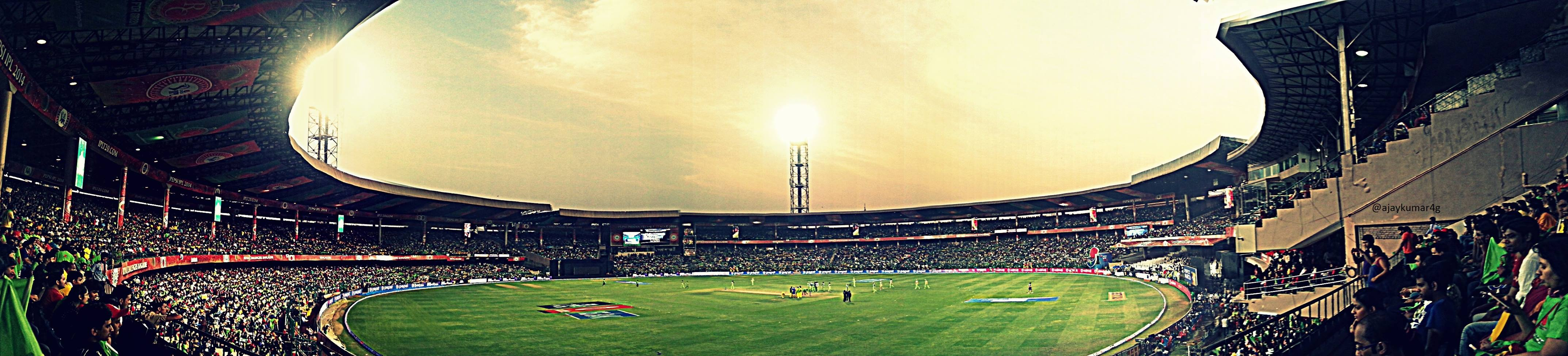 Chinnaswamy Stadium Category:Bengaluru